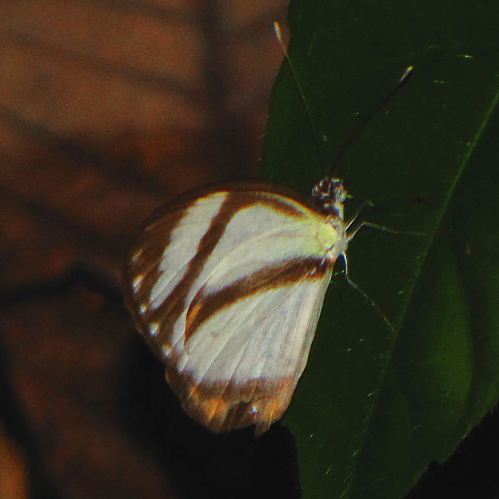 Pisonis Mimic (Itaballia pandosia), Tambopata Park, Peru